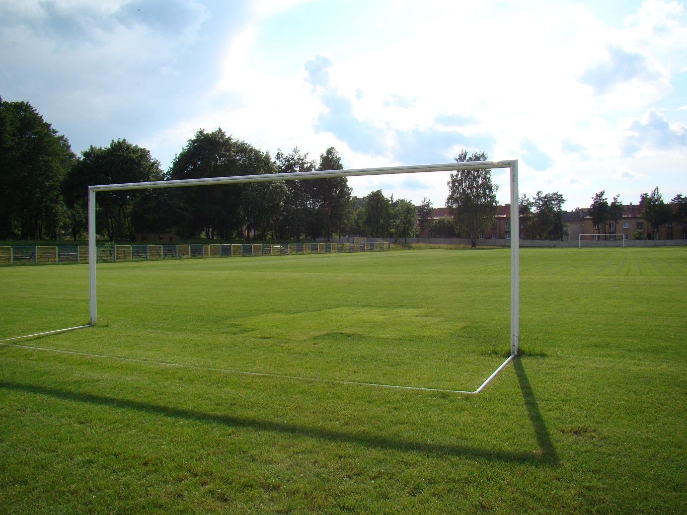 rzelik7 aparat